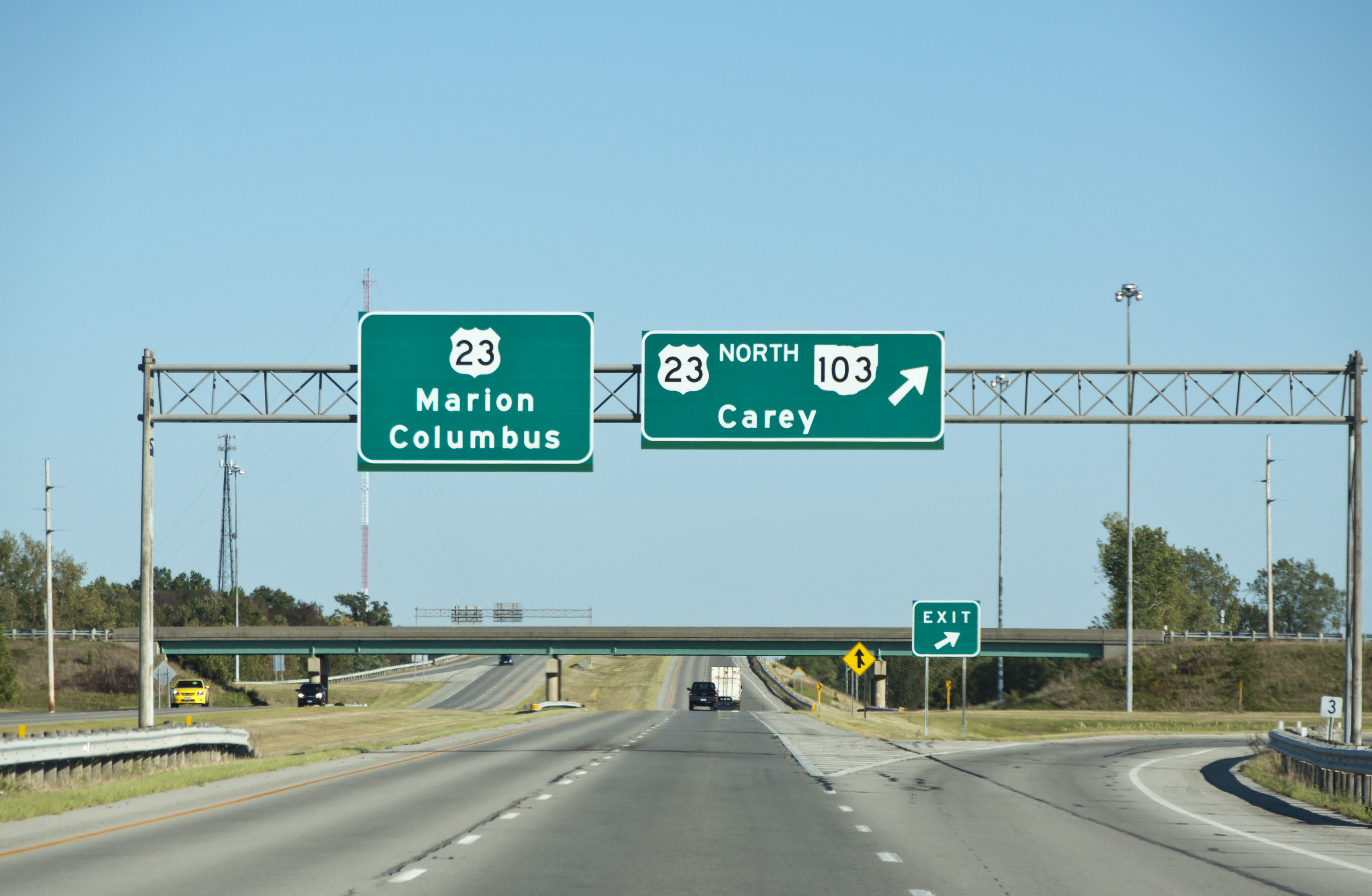 The end of Ohio State Route 15. It merges into U.S. Route 23 in Wyandot County, Ohio.